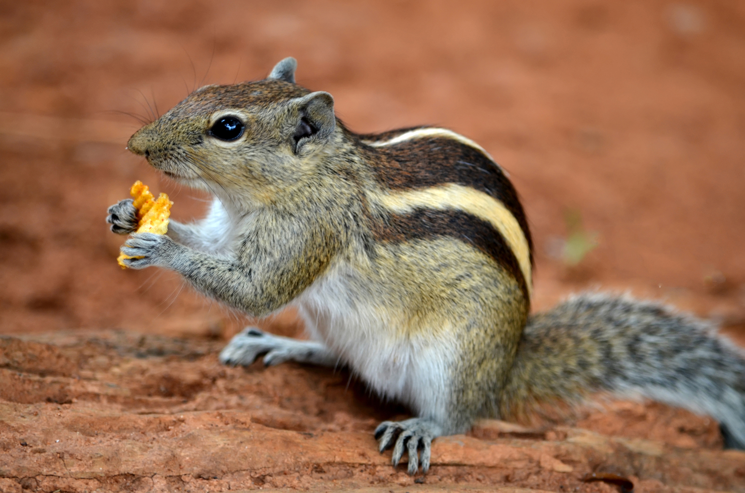 Indian Palm Squirrel